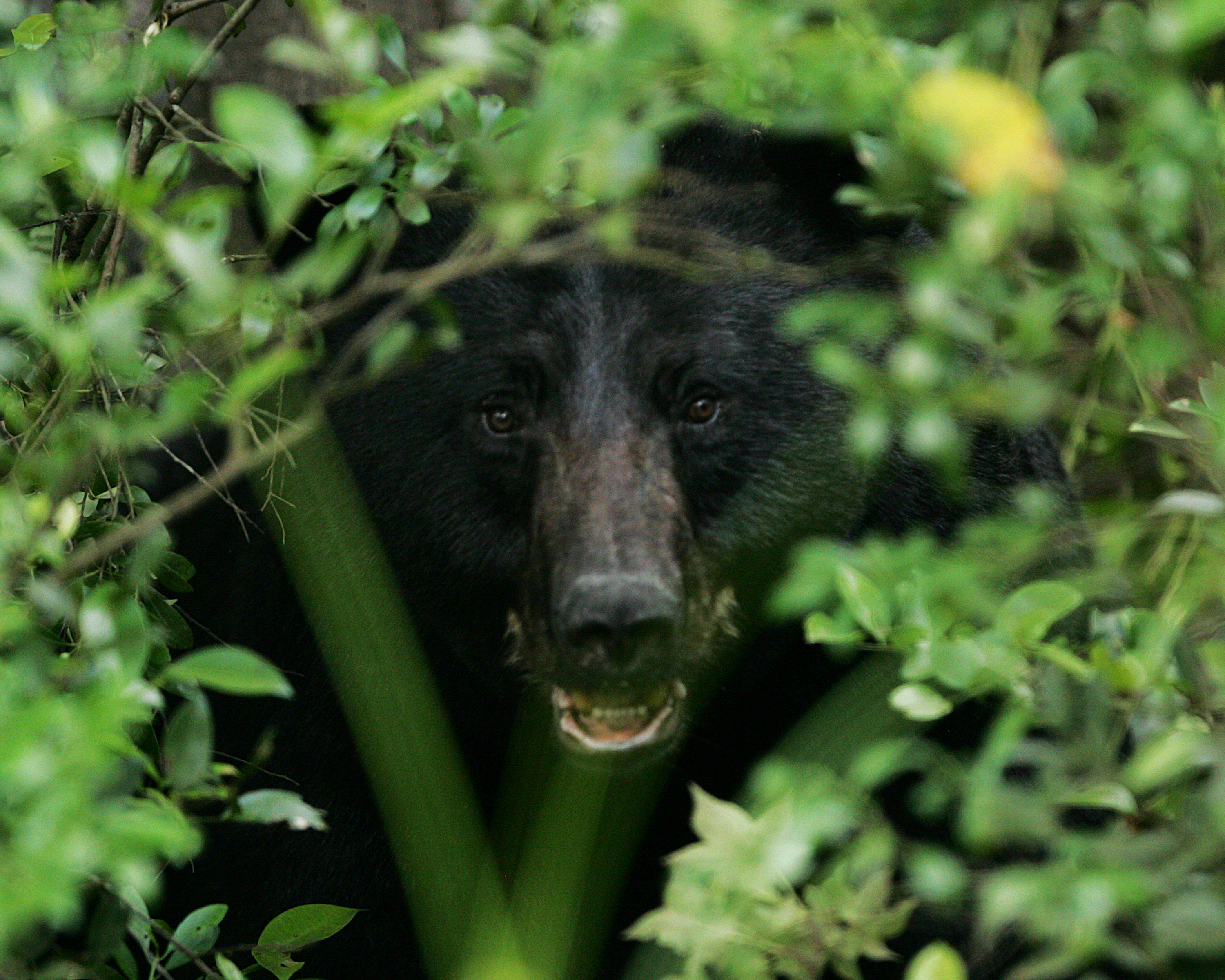 Close-up image of a black bear (Ursus americanus) in vegetation.